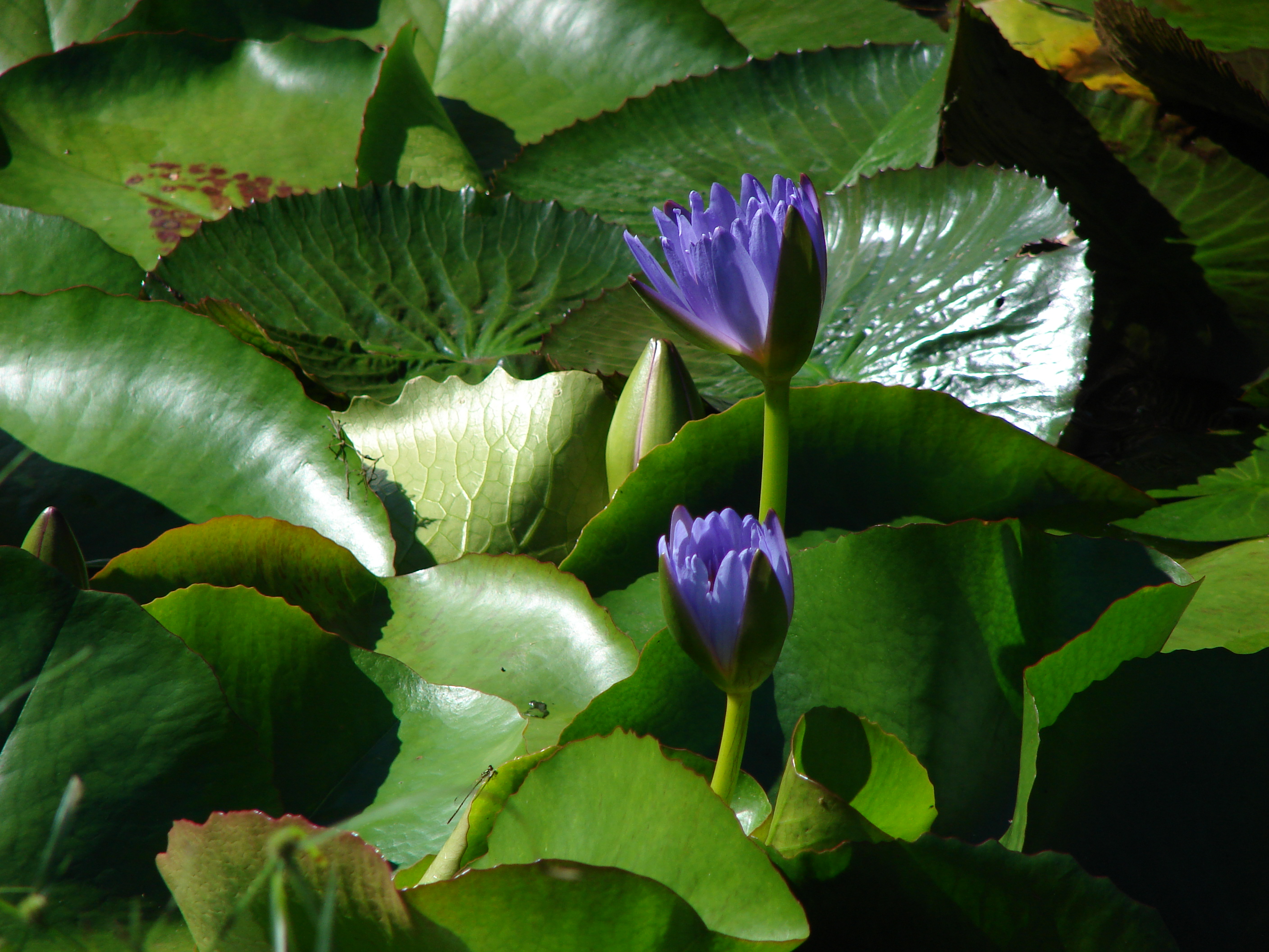 Nymphaea sp. (flowering habit). Location: Maui, Enchanting Floral Gardens of Kula